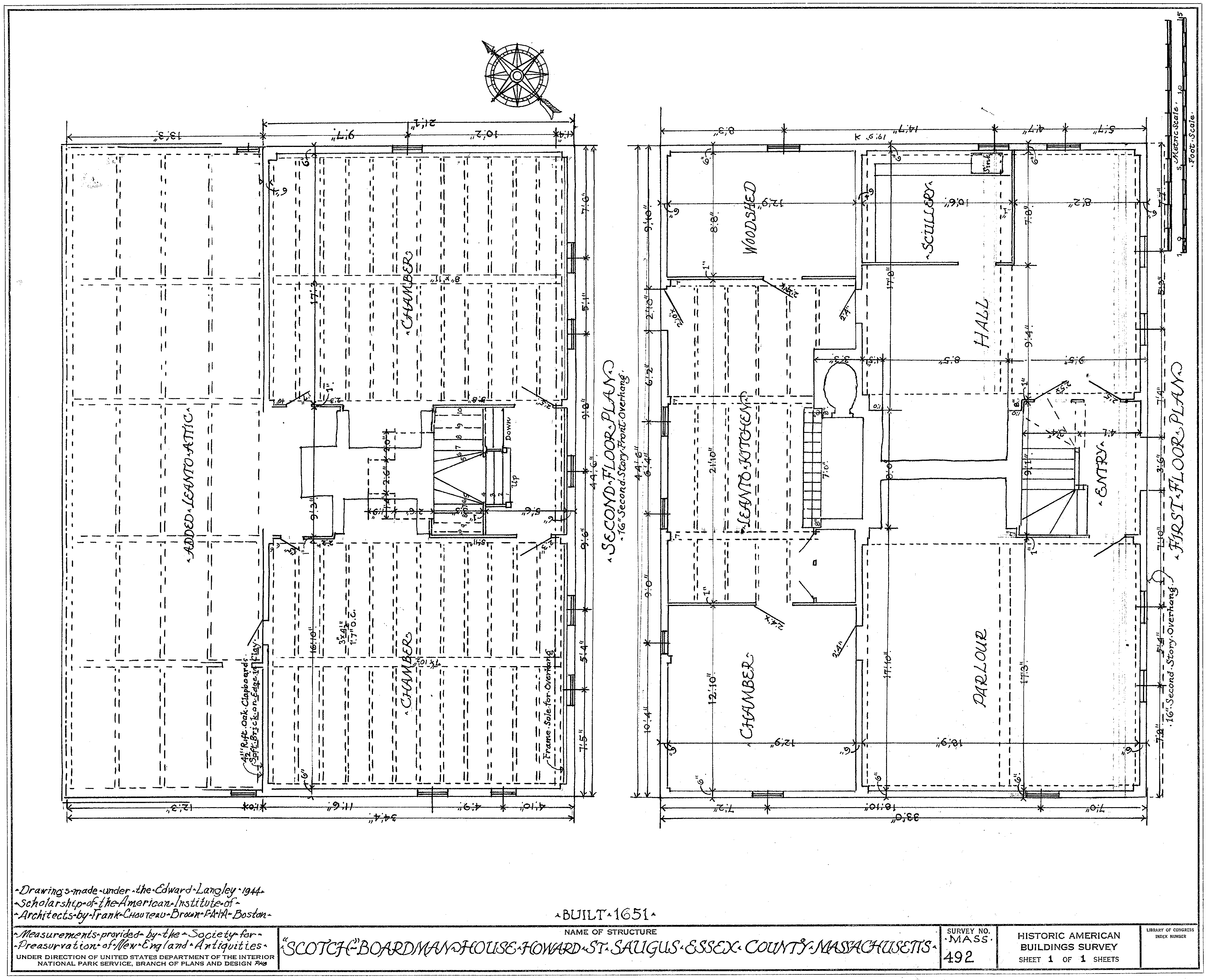 "Scotch House" - Floorplan of the Boardman House, Saugus, Massachusetts.